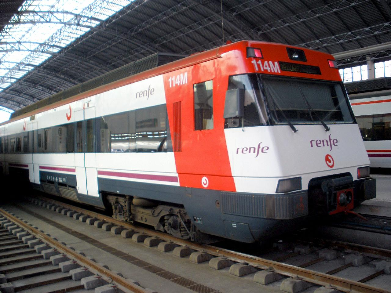 Unidad de cercanías de Renfe de la clase 447, estacionado en Abando Indalecio Prieto, Bilbao (España)